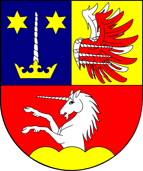 Coat of arms (shield only) of Zakariás Mossóczy (Zachariáš Mošóczy, 1542 – 1587), bishop of Vác, Hungary (1578 – 1580), bishop of Nitra, Kingdom of Hungary (1582 – 1587). Based on an engraving of Martin Rota. Tinctures based on coat of arms in his breviar.